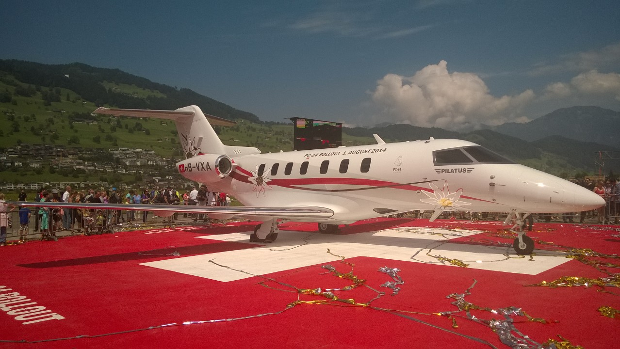 Roll Out of Pilatus PC-24 on 1. August 2014 in Stans